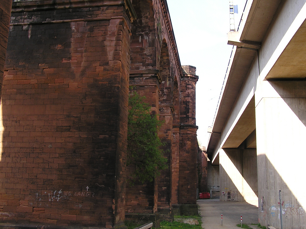 The “Rosentalviadukt” at the Main-Weser-Bahn in Friedberg with the new viaduct built parallel to it